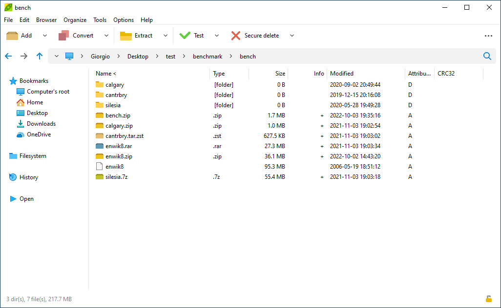 PeaZip screenshot